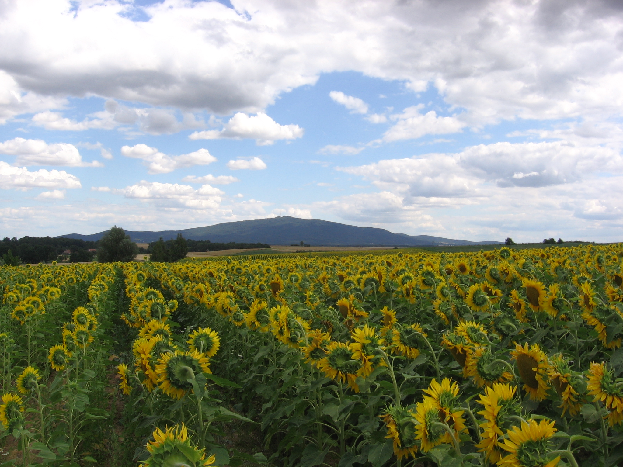 Helianthus field in Poland, near Sobótka; in background - Ślęża Mountain